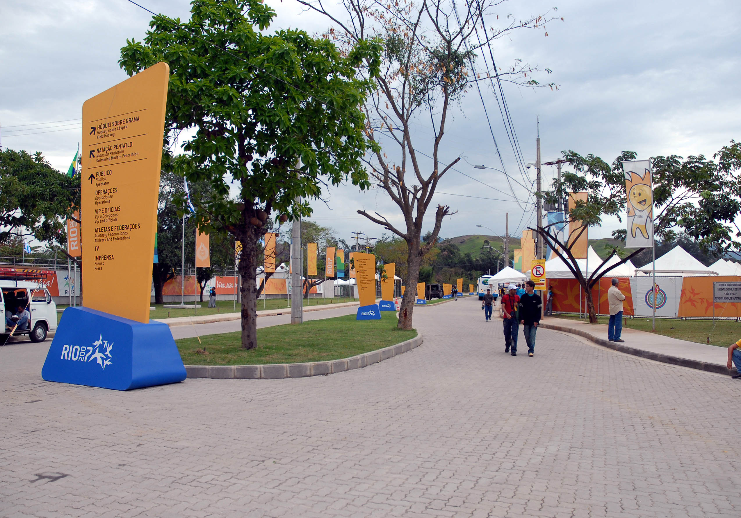 The Deodoro Complex in Rio de Janeiro: competition venue for the 2007 Pan American Games.